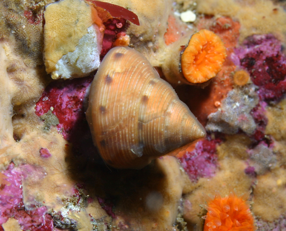 The glorious top snail Calliostoma gloriosum has a thick coating of slime on its shell, which serves as further protection from predators.